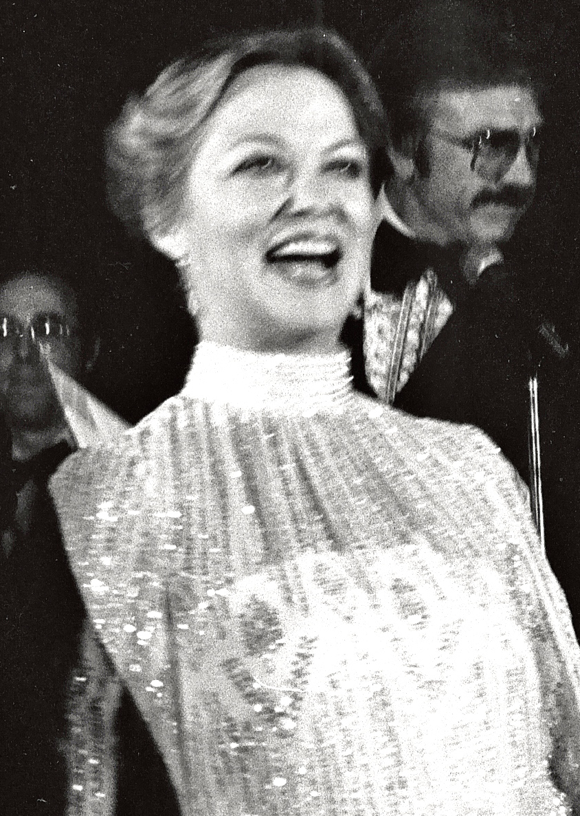 Actress Louise Fletcher at the National Film Society convention, May 1979